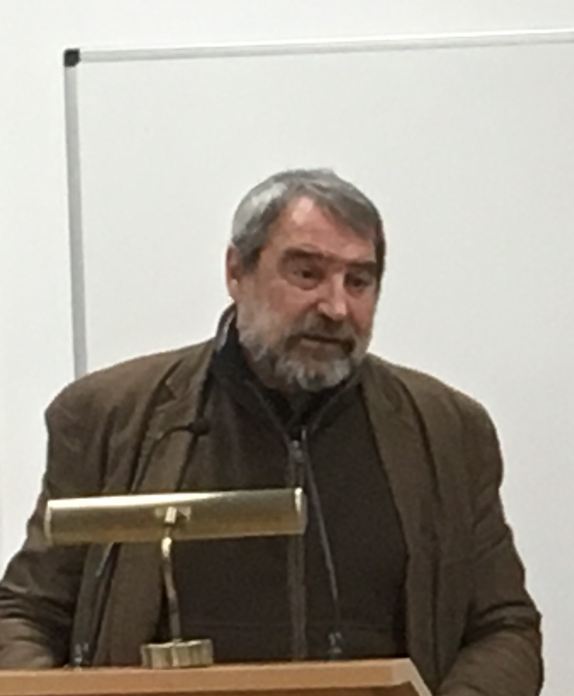 Vassil Garnizov - Bulgarian scientist and photographer